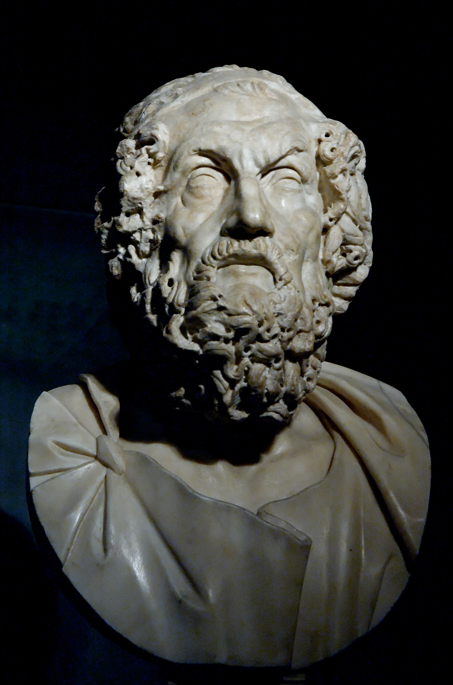 Bust of Homer. Marble, Roman copy after an Hellenistic original of the 2nd century BC.